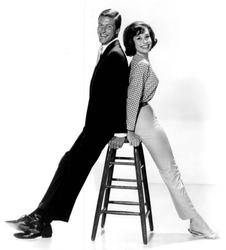 Publicity photo of Dick Van Dyke and Mary Tyler Moore used for the premiere of the television program The Dick Van Dyke Show.